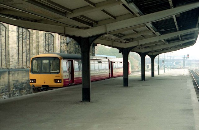 Dmu arriving from Skipton